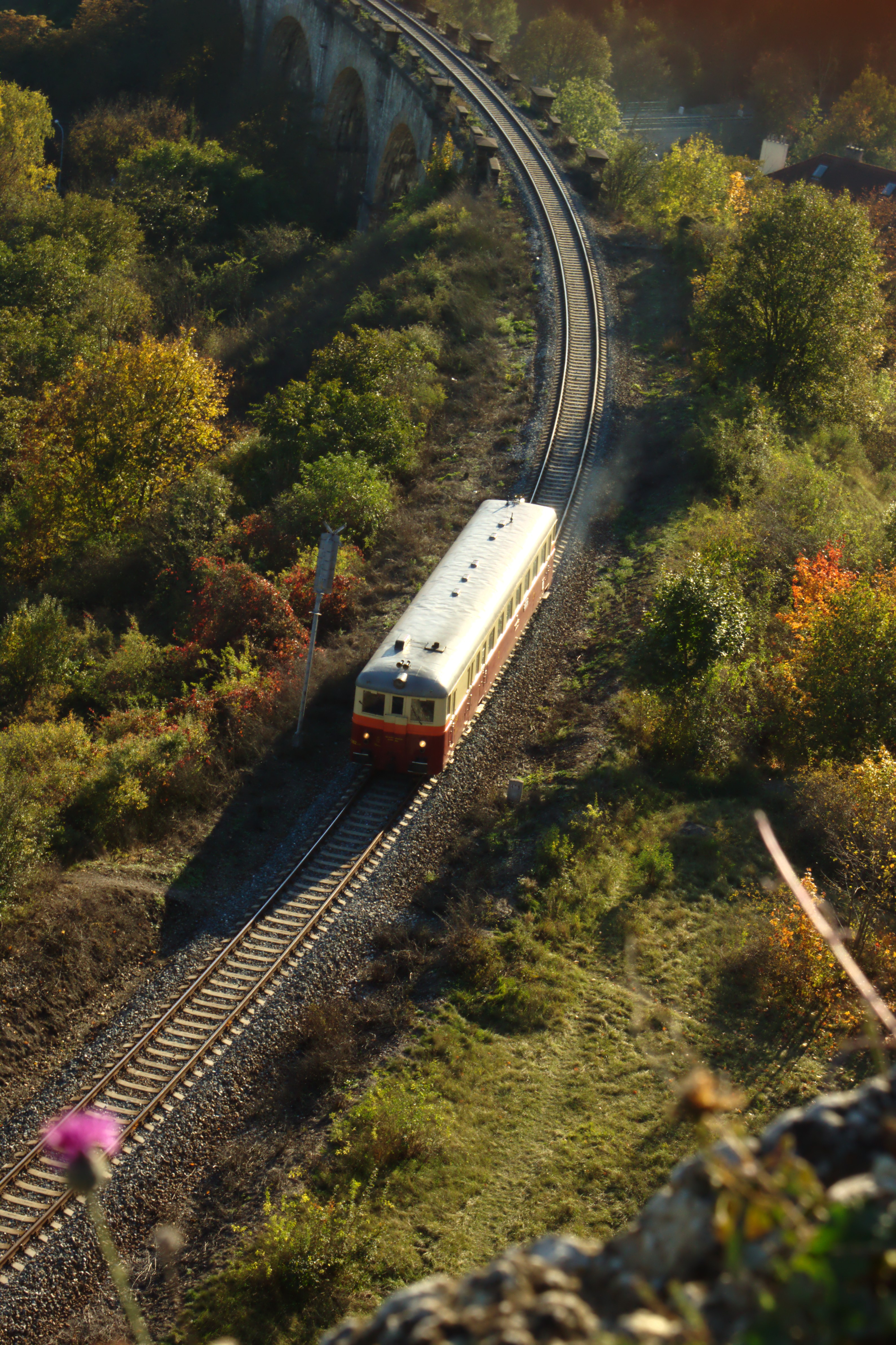 Historic train no. 830 as the so-called "Pražský motoráček" line from Prague-Řepy to Prague-Smíchov, going via the Pražský Semmering, a track in the hilly terrain of Hlubočepy in SW part of Prague, CZ